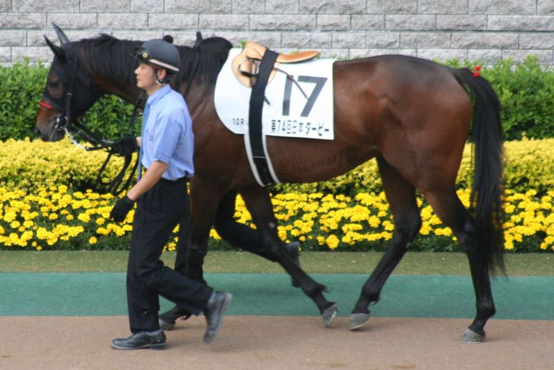 Victory(horse)